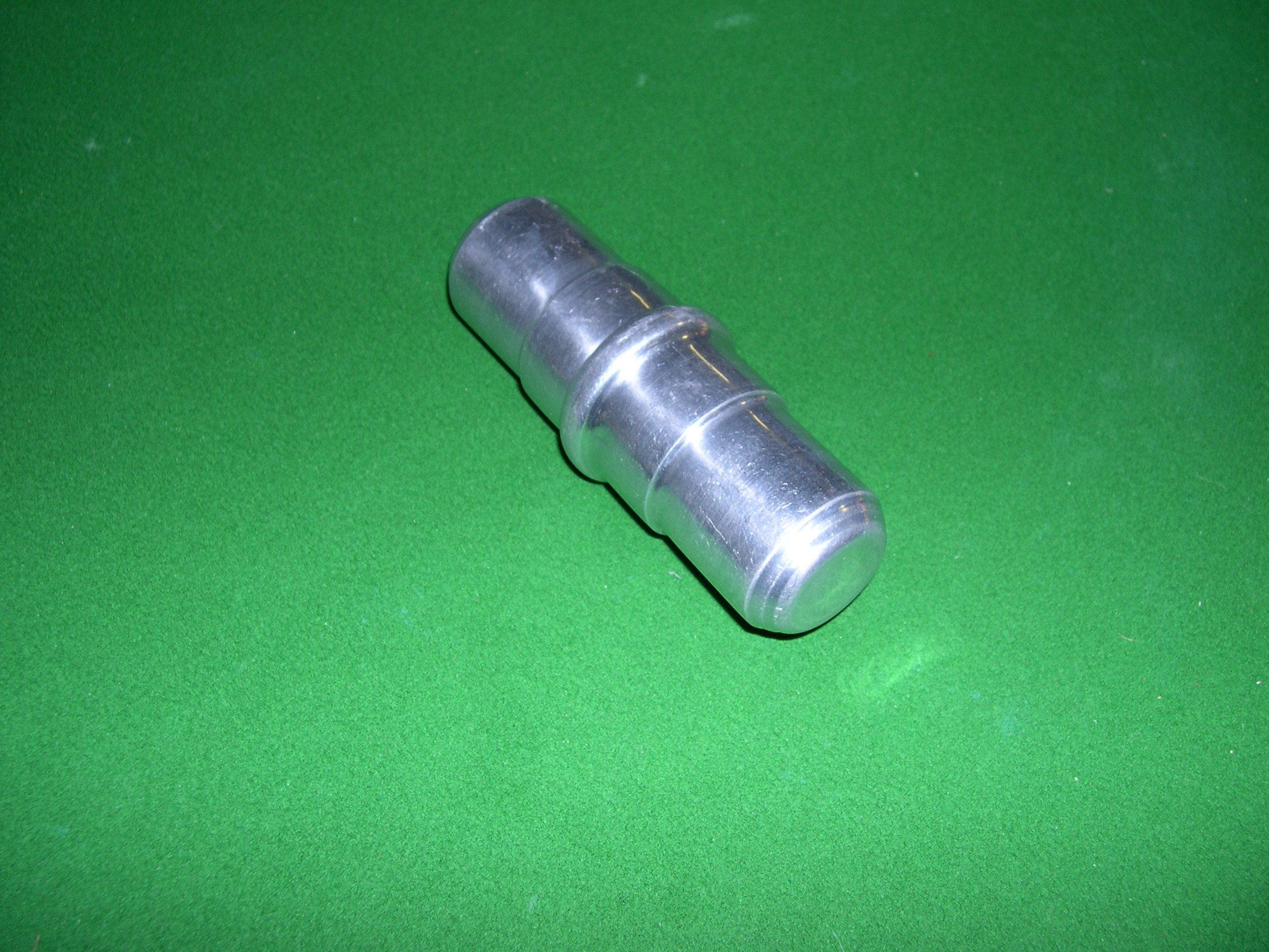 Metal ganze, approximative length: 20 cm.